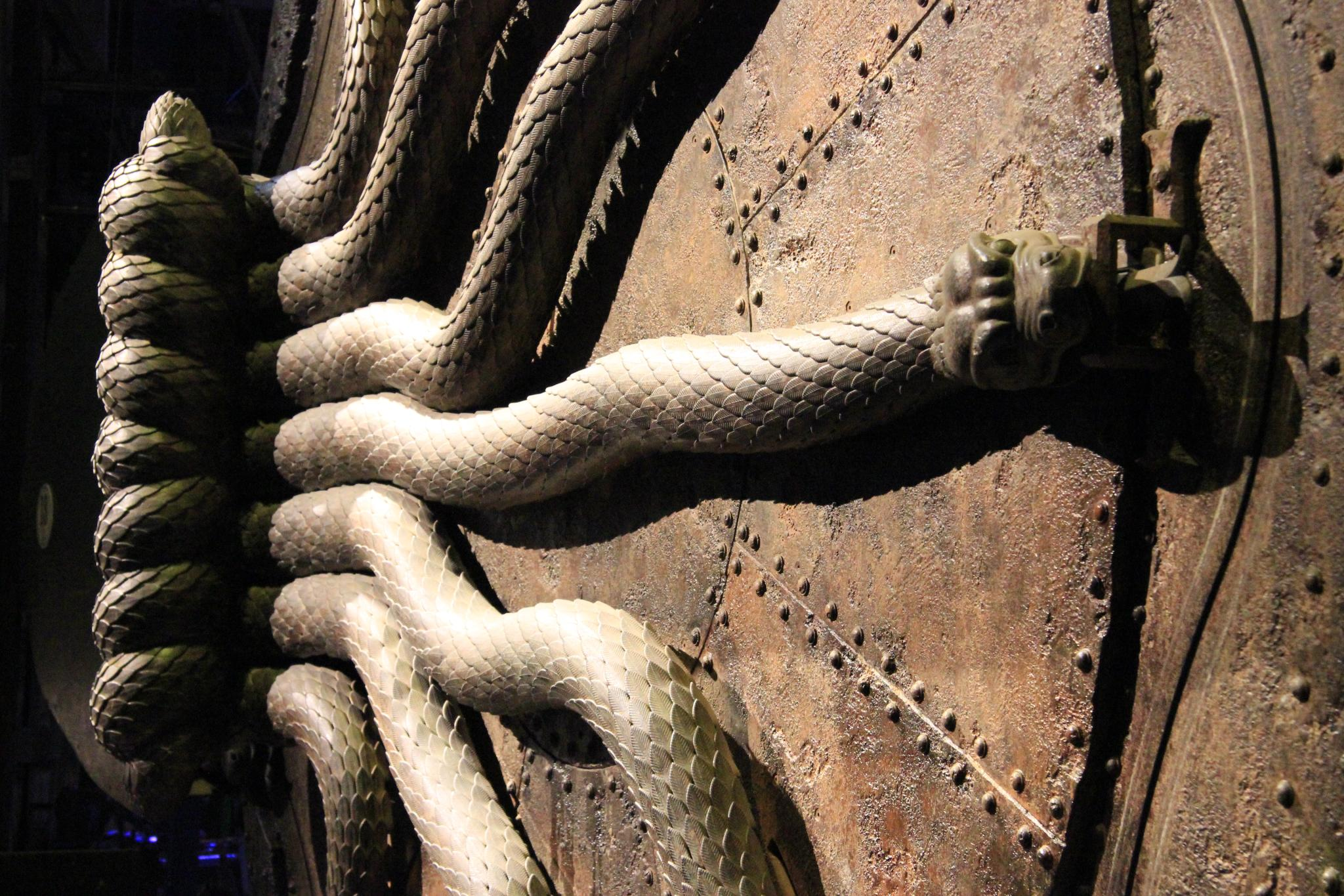 Warner Bros. Studio Tour London: The Making of Harry Potter.